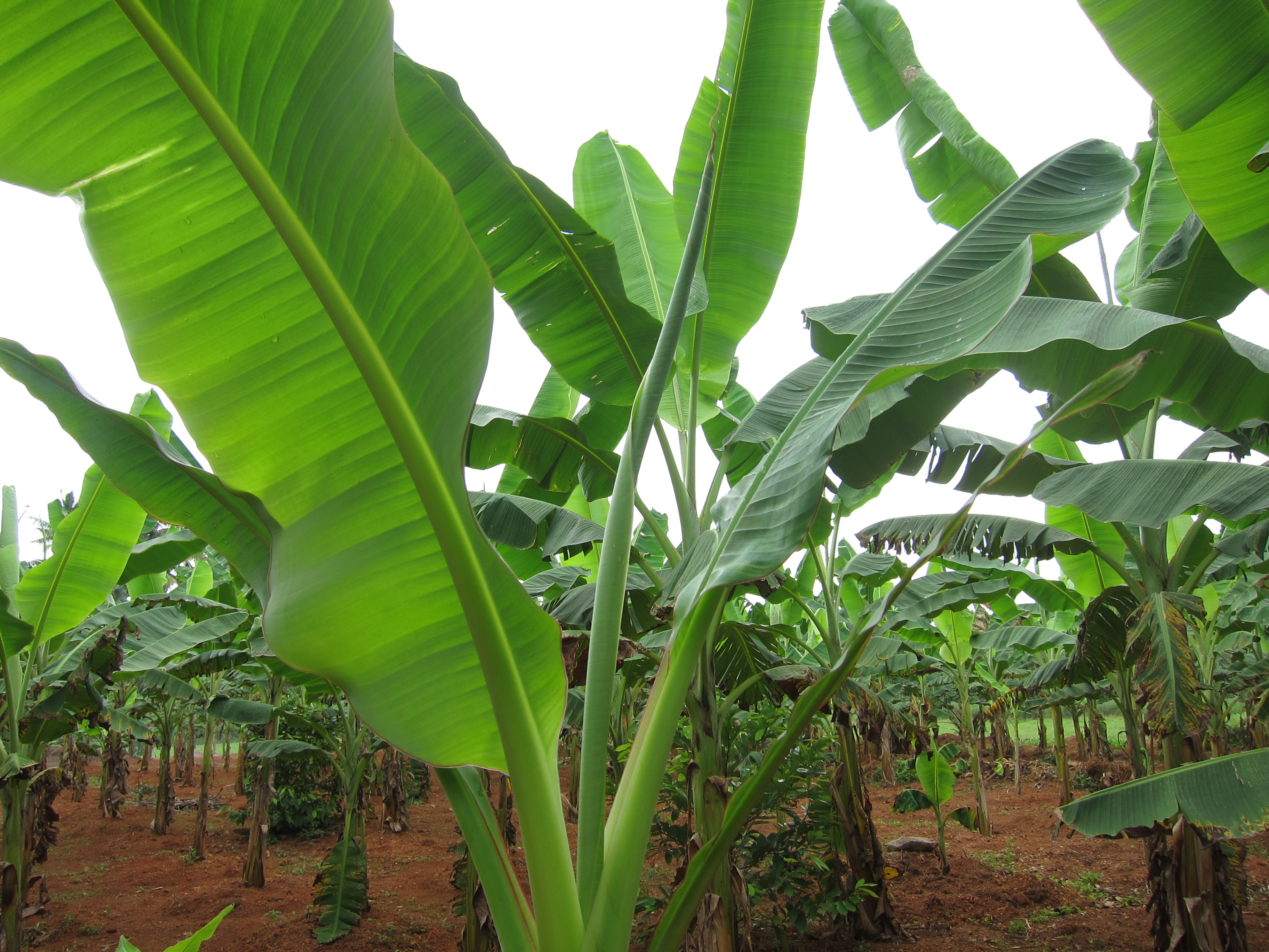 Banana - വാഴതോട്ടം